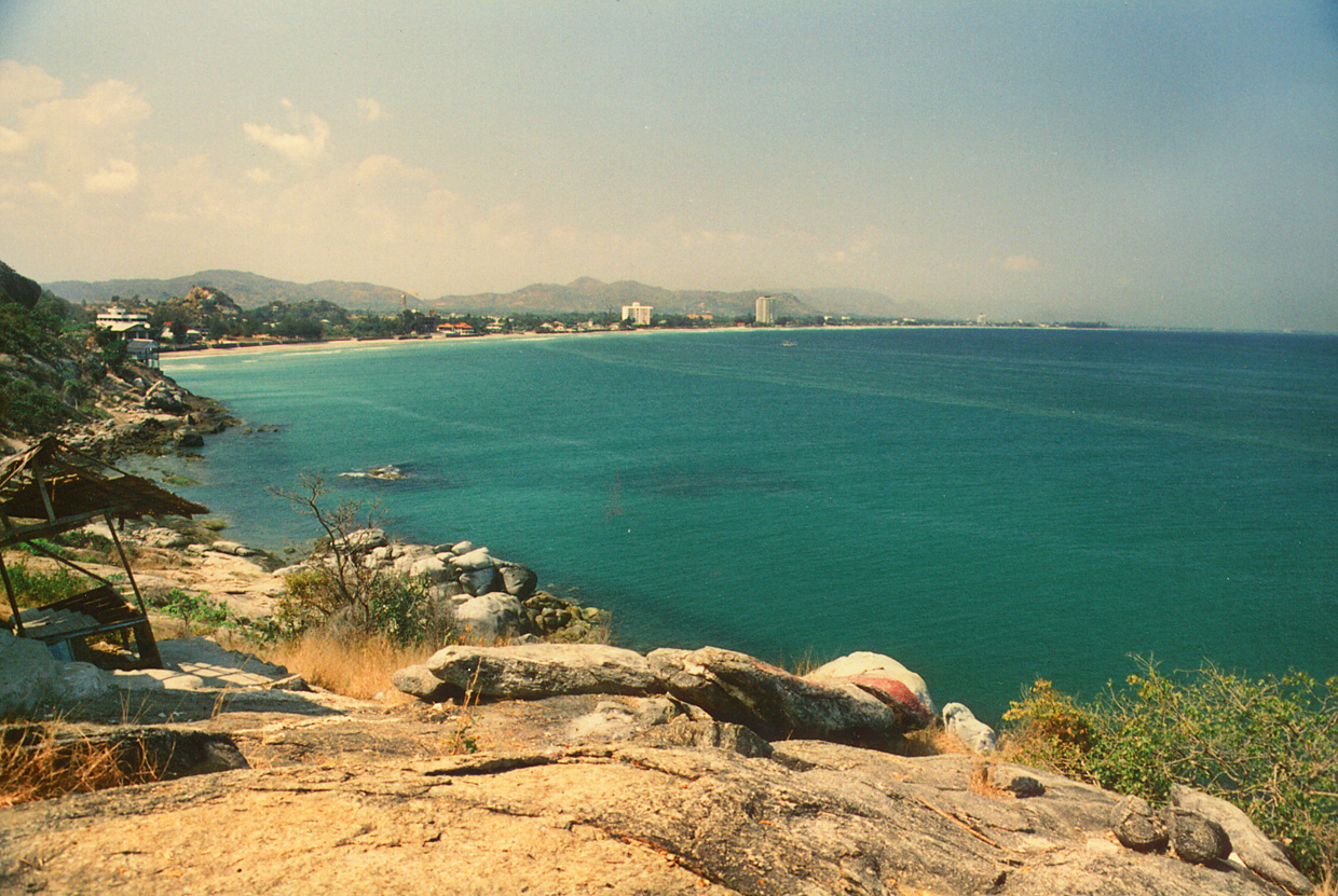 Waterfront of Hua Hin showing the many hotels at the beach. View as of Feb. 1989 from the Takeap rock south of Hua Hin, Thailand.